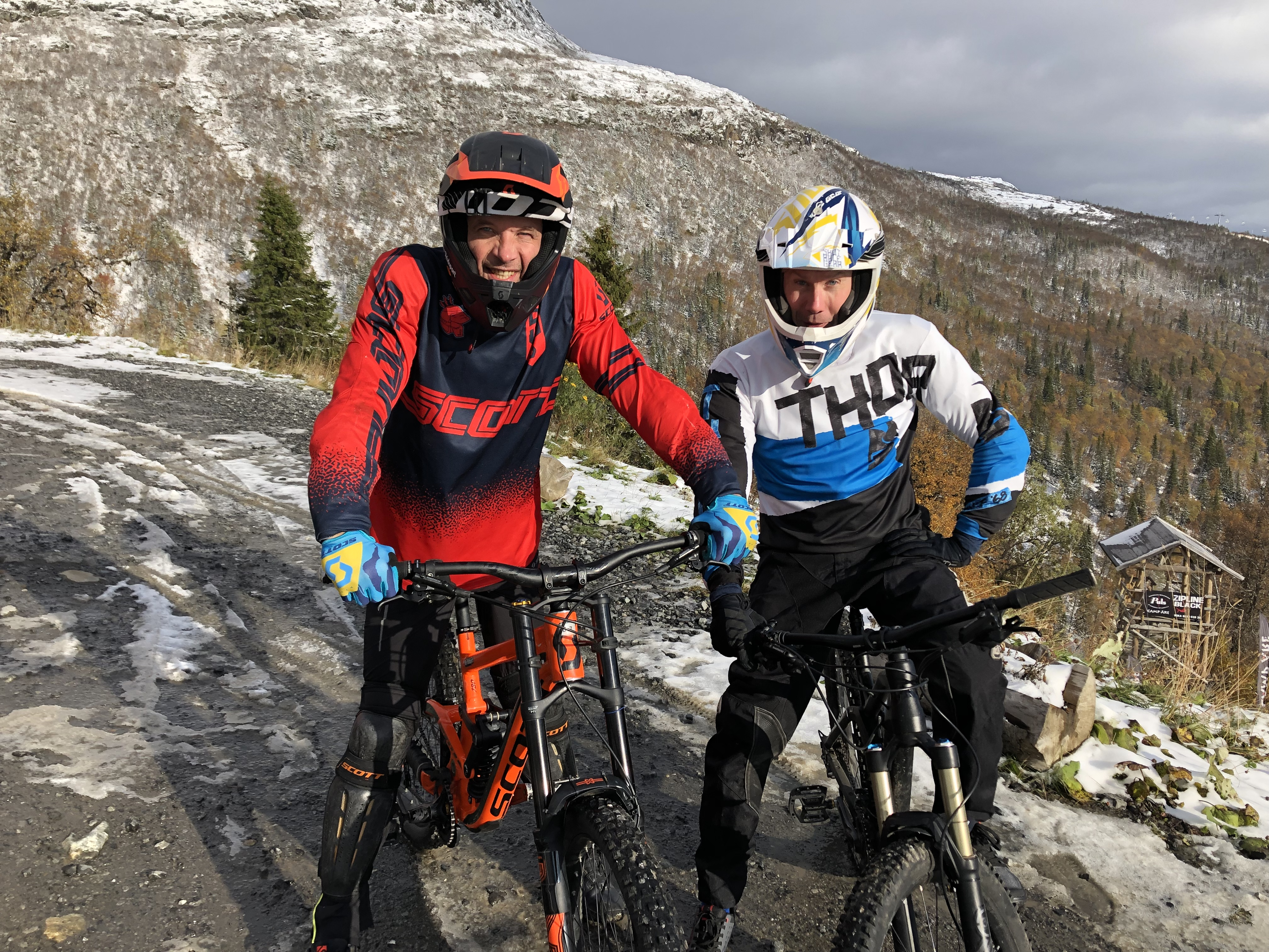 Mountain bike downhill